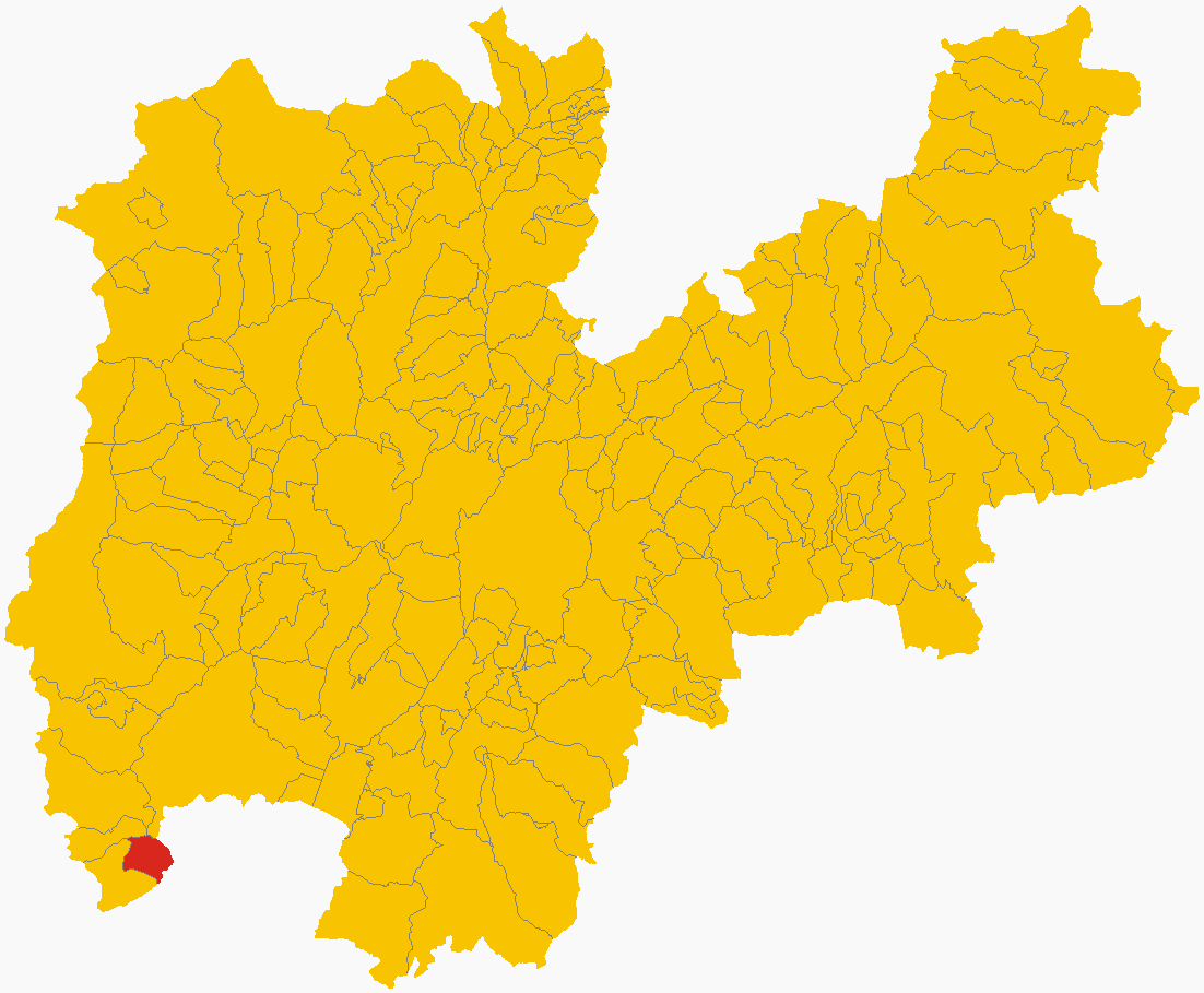 Hypothetical map of the comune of Magasa in the autonomous province of Trento, with also the two others comuni of Valvestino and Pedemonte, currently in the provinces of Brescia and Vicenza.